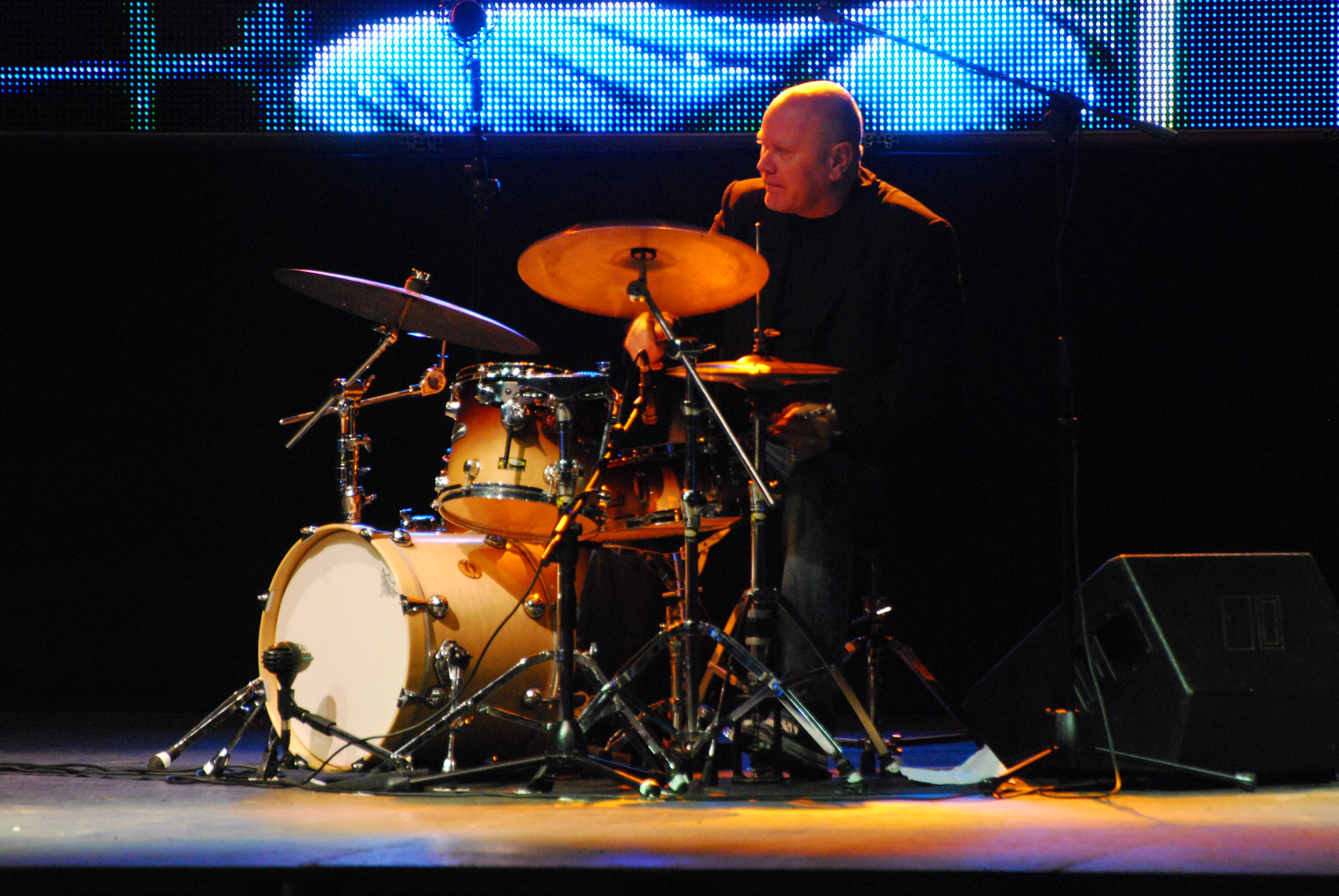 Roberto Gatto at Internazionale review show in Ferrara (Italy) 2010, 2nd of Oct.